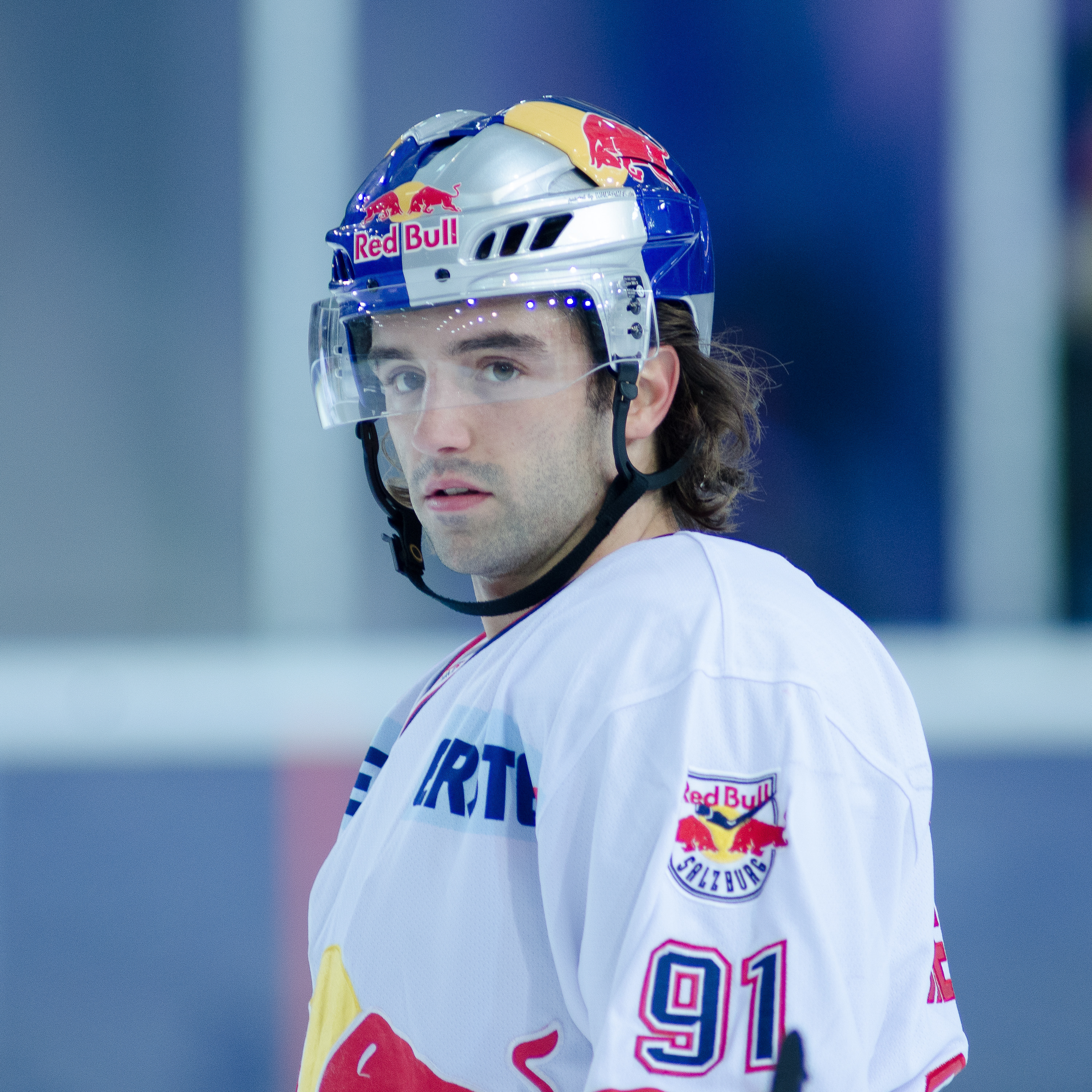 25.10.2013, Stadthalle Villach, AUT, EBEL, 27. Runde, EC VSV vs. EC RED BULL Salzburg, im Bild Dominique Heinrich, (EC RED BULL SALZBURG, #91),// frostworx Pictures © 2013, PhotoCredit: frostworx / Alex Micheu